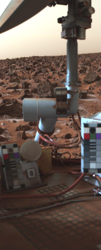 Original Caption Released with NASA Image: Photo from Viking Lander 2 shows late-winter frost on the ground on Mars around the lander. The view is southeast over the top of Lander 2, and shows patches of frost around dark rocks. The surface is reddish-brown; the dark rocks vary in size from 10 centimeters (four inches) to 76 centimeters (30 inches) in diameter. This picture was obtained September 25, 1977. The frost deposits were detected for the first time 12 Martian days (sols) earlier in a black-and-white image. Color differences between the white frost and the reddish soil confirm that we are observing frost. The Lander Imaging Team is trying to determine if frost deposits routinely form due to cold night temperatures, then disappear during the warmer daytime. Preliminary analysis, however, indicates the frost was on the ground for some time and is disappearing over many days. That suggests to scientists that the frost is not frozen carbon dioxide (dry ice) but is more likely a carbon dioxide clathrate (six parts water to one part carbon dioxide). Detailed studies of the frost formation and disappearance, in conjunction with temperature measurements from the lander’s meteorology experiment, should be able to confirm or deny that hypothesis, scientists say.